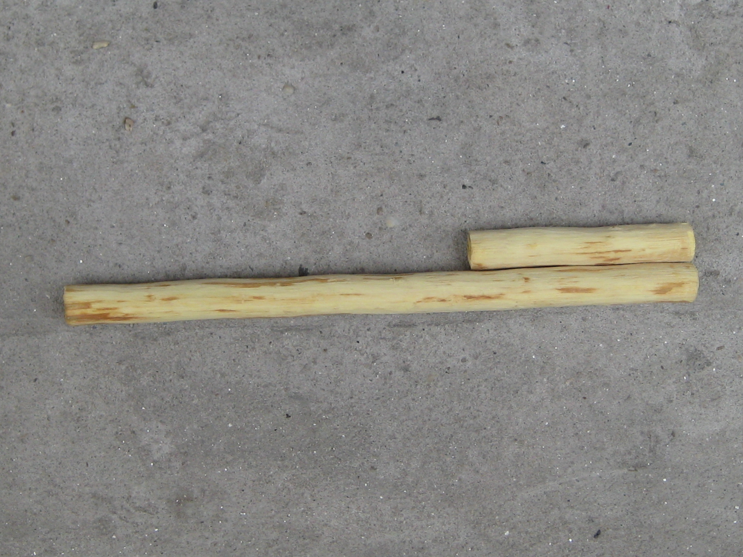 "Danh khang" (Game with Sticks), a Vietnamese traditional game.